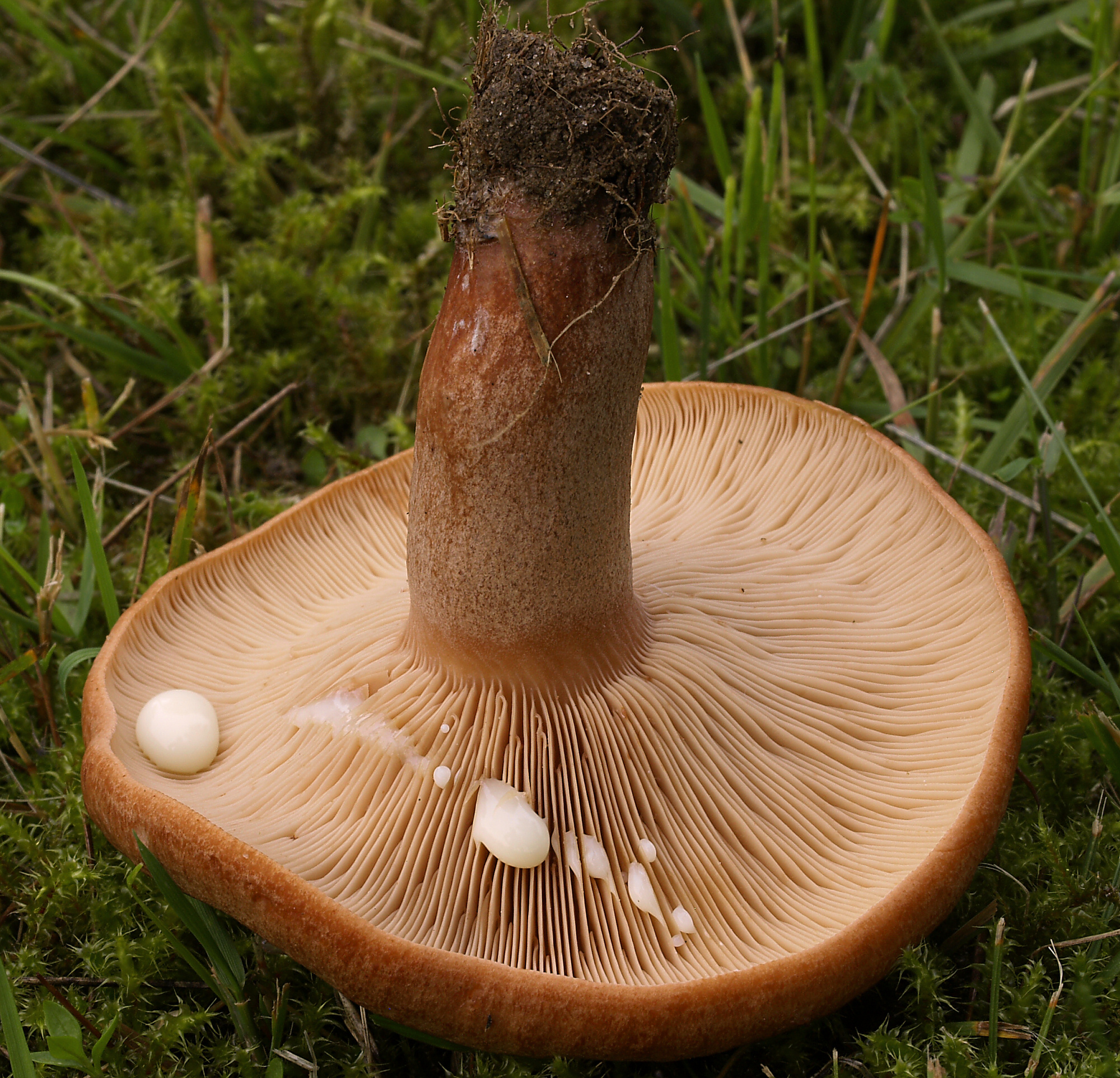 Oakbug Milkcap (Lactarius quietus)